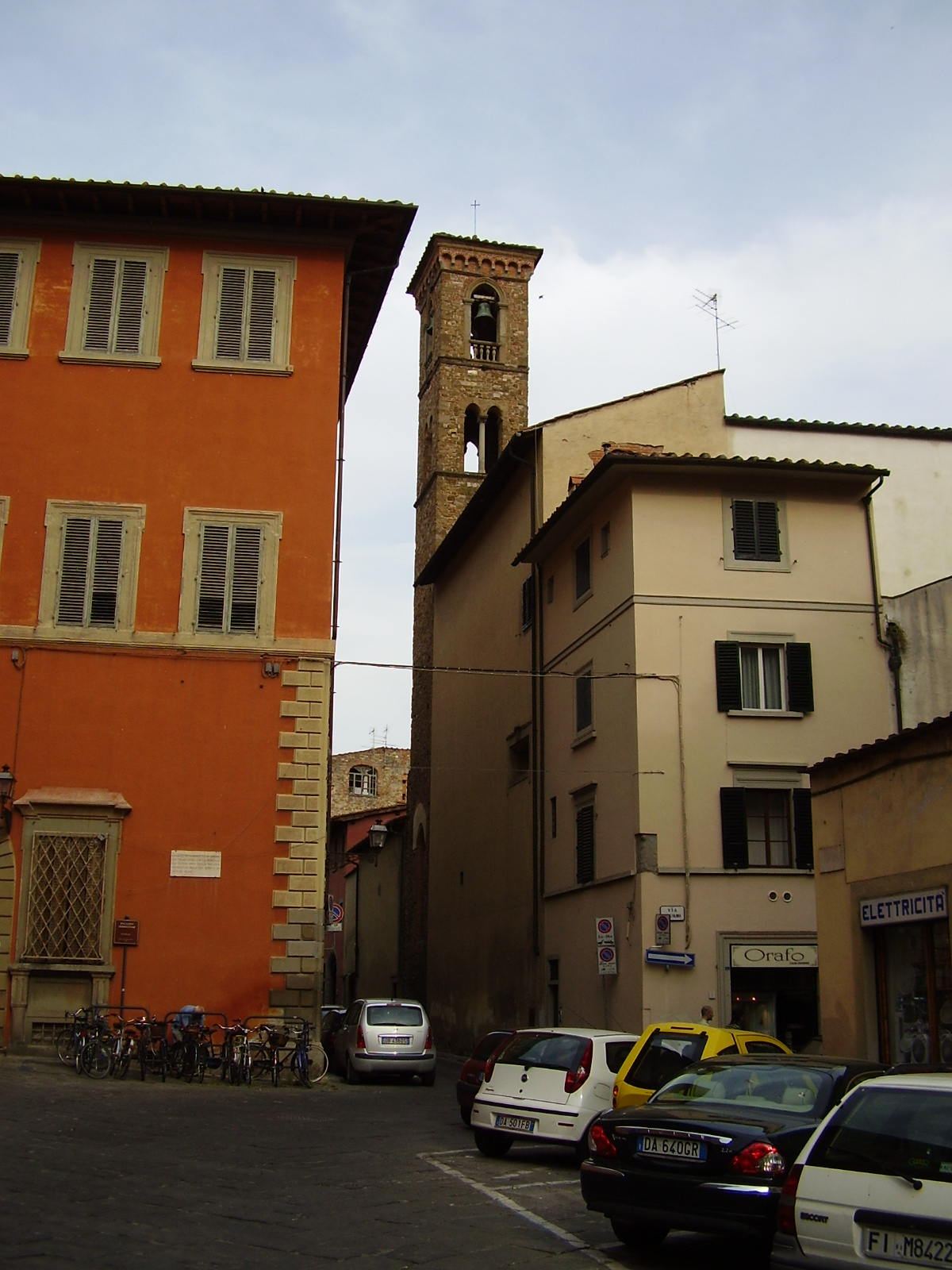 Bell tower of San Niccolò church, outside view in Florence, Italy